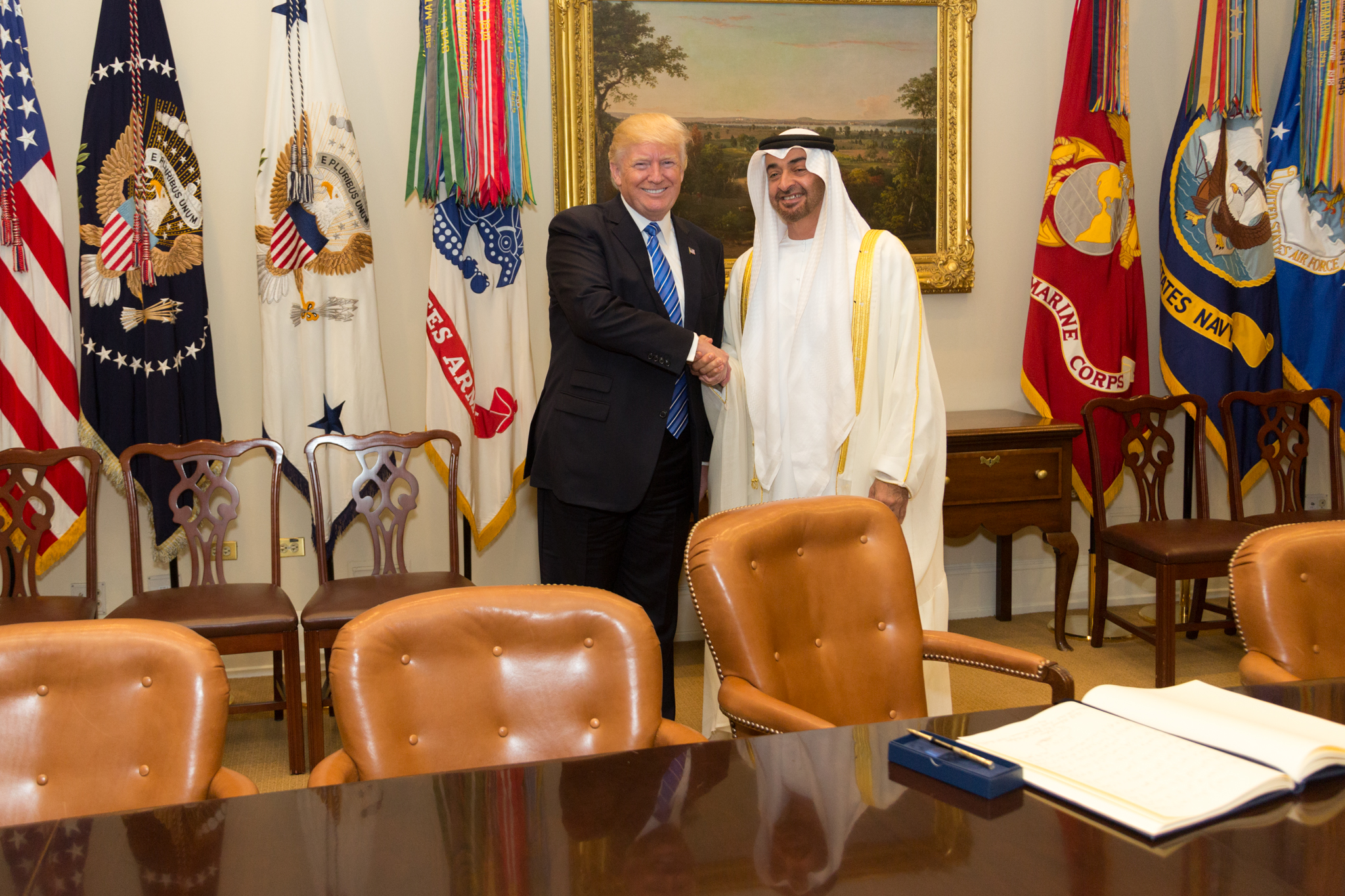 President Donald Trump meet with His Highness Sheikh Mohamed bin Zayed Al Nahyan, Crown Prince of Abu Dhabi, in the Roosevelt Room of the White House, Monday, May 15, 2017, in Washington, D.C. (Official White House Photo by Shealah Craighead)